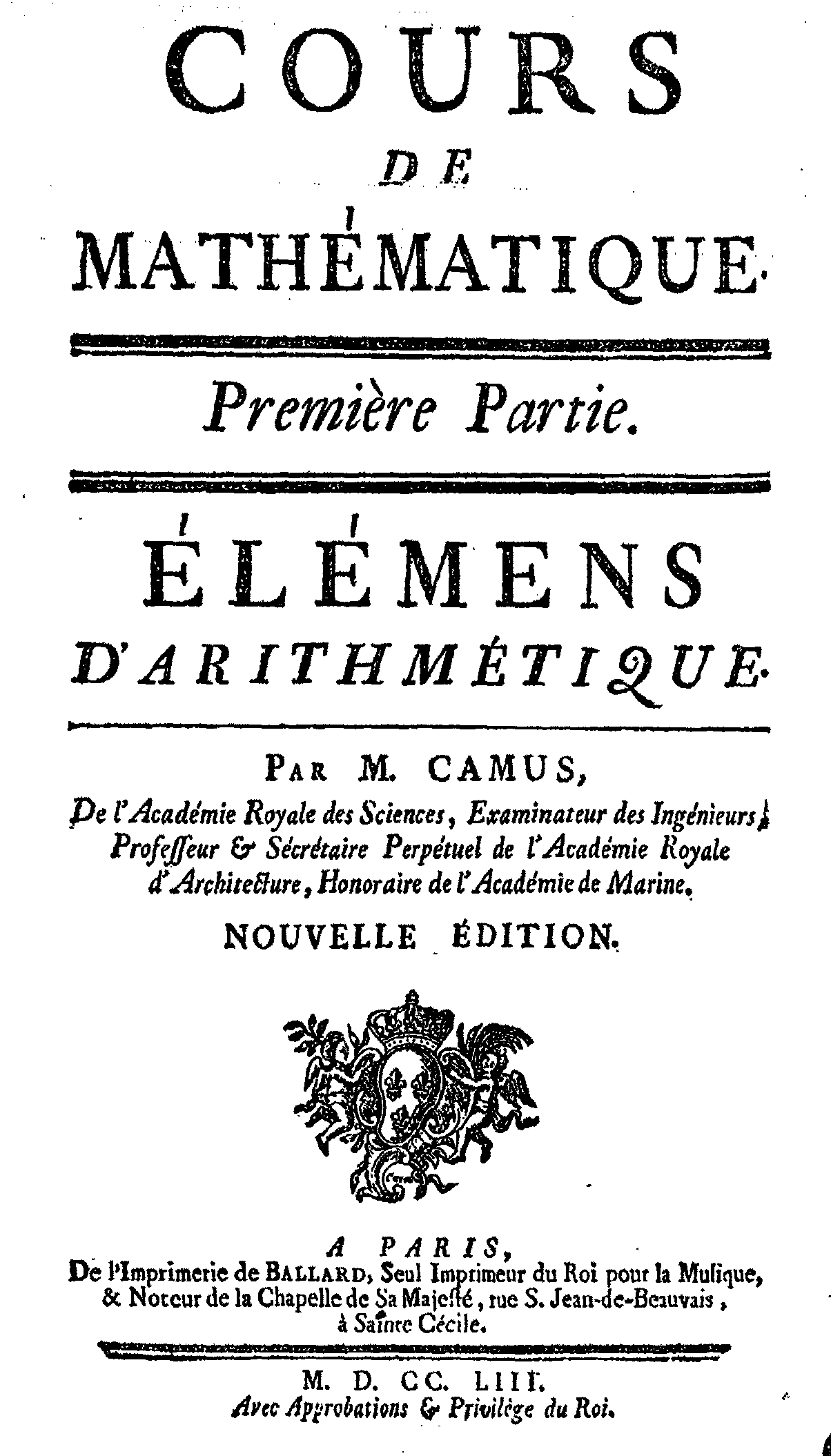 Title page of "Cours de mathématique" (vol. 1) first published in 1749 by French mathematician Charles Étienne Louis Camus (1699-1768).